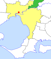 Location of the Shire of Eltham within outer Melbourne.